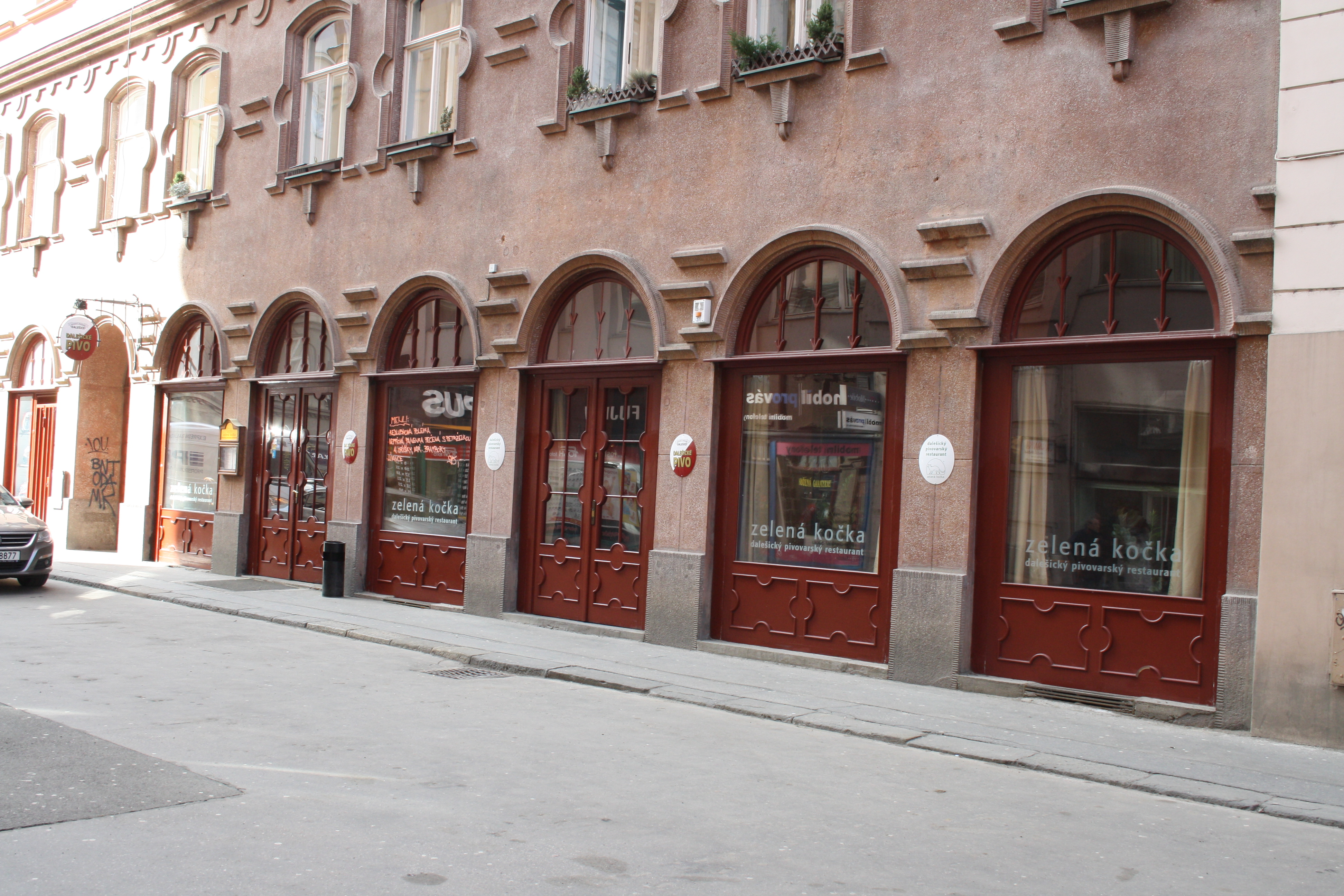 Restaurant Zelená kočka of Dalešice Brewery at Solniční Street in Brno, Czech Republic.